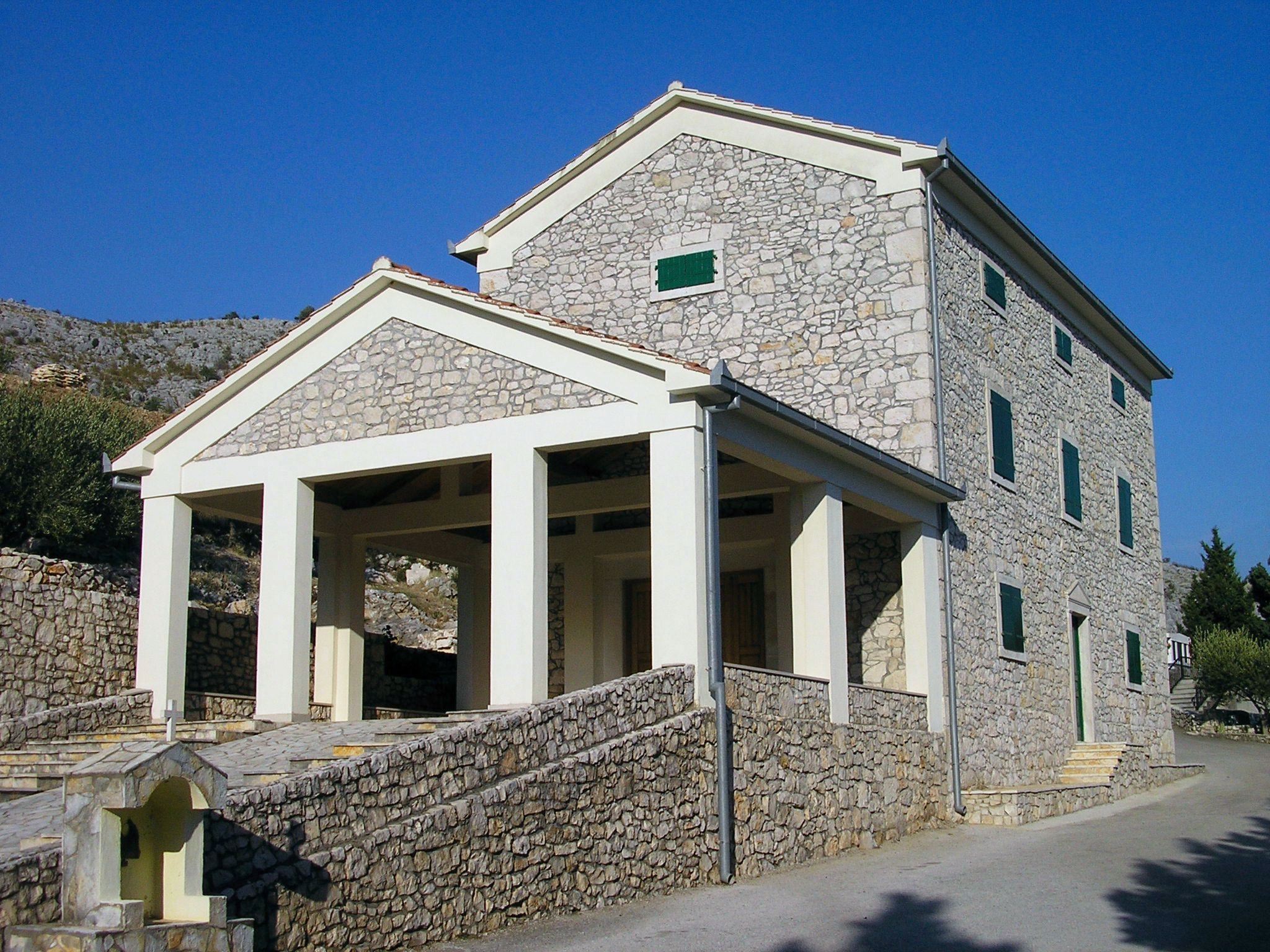 Old parish house, now mortuary in Bagalović